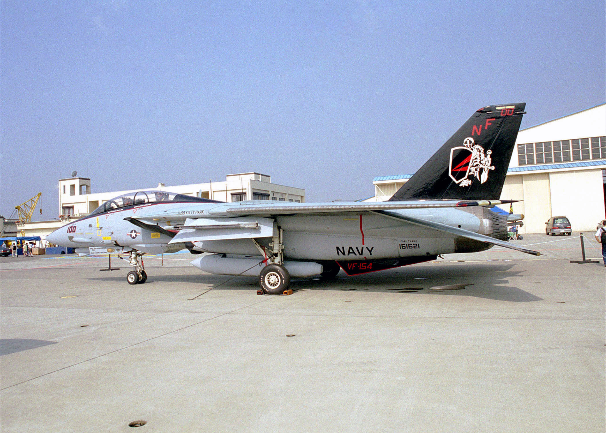 A U.S. Navy Grumman F-14A-125-GR Tomcat (BuNo 161621) from fighter squadron VF-154 Black Knights at the "Wings 2000" air show at Naval Air Facility Atsugi (Japan), on 2 July 2000. VF-154 was assigned to Carrier Air Wing 5 (CVW-5) aboard the aircraft carrier USS Kitty Hawk (CV-63). Tomcat displayed in picture was painted by AMS3 William Edmonds